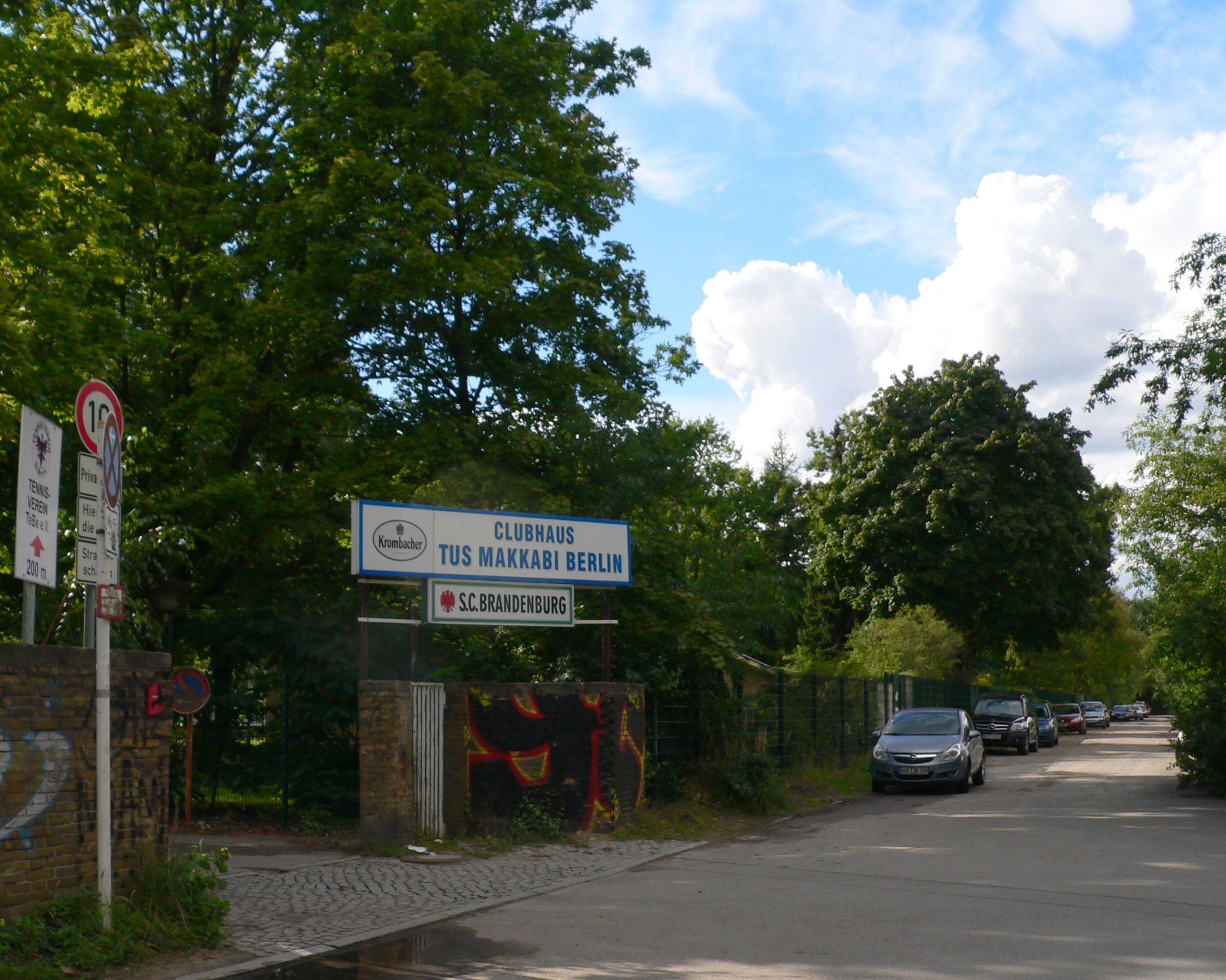 Berlin-Westend TUS-Makkabi